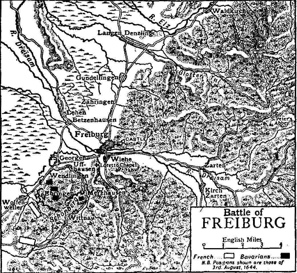 Black and white map of the Battle of Freiburg showing the positions on August 3, 1644.